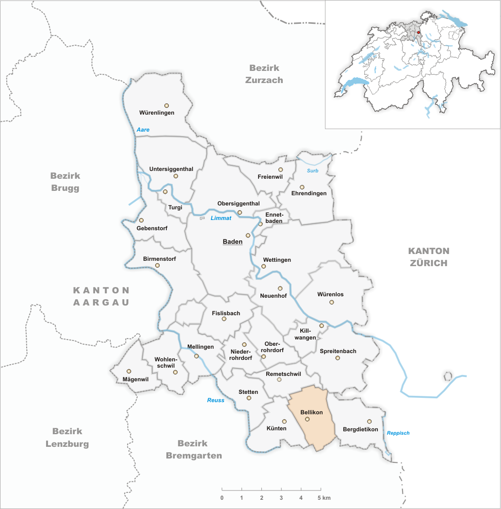 Municipality Bellikon